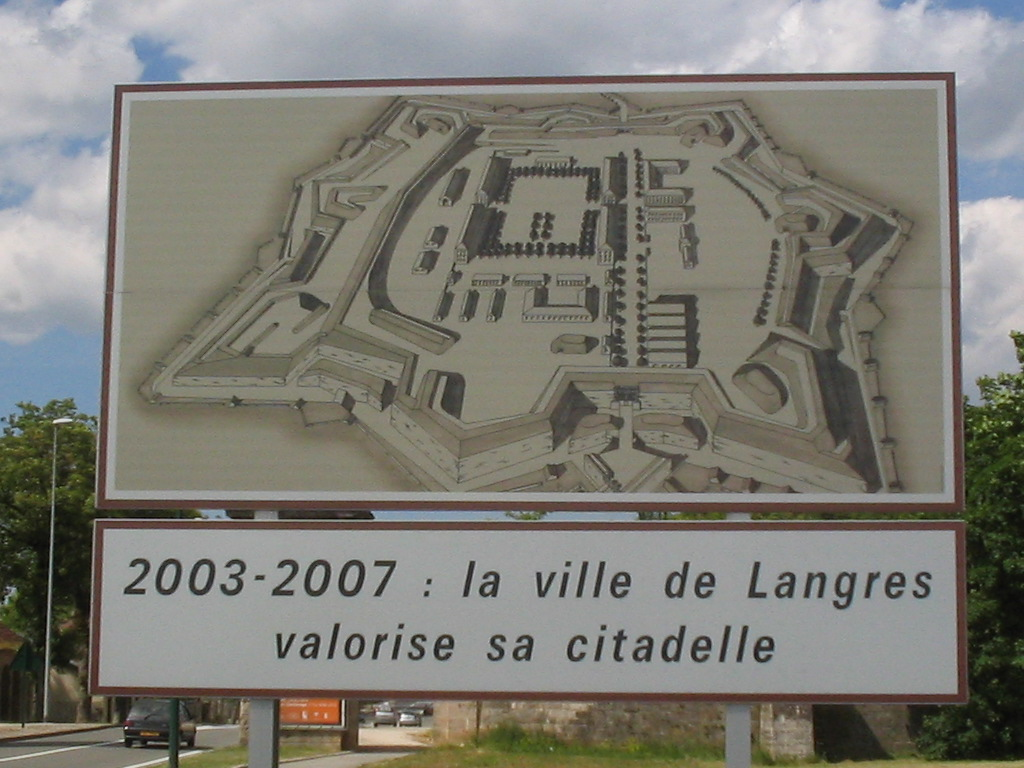 Billboard with defensive work map of city of Langres, France, june 2005